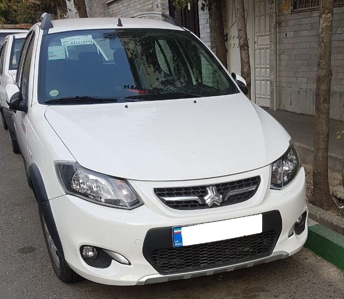 Saipa Quick